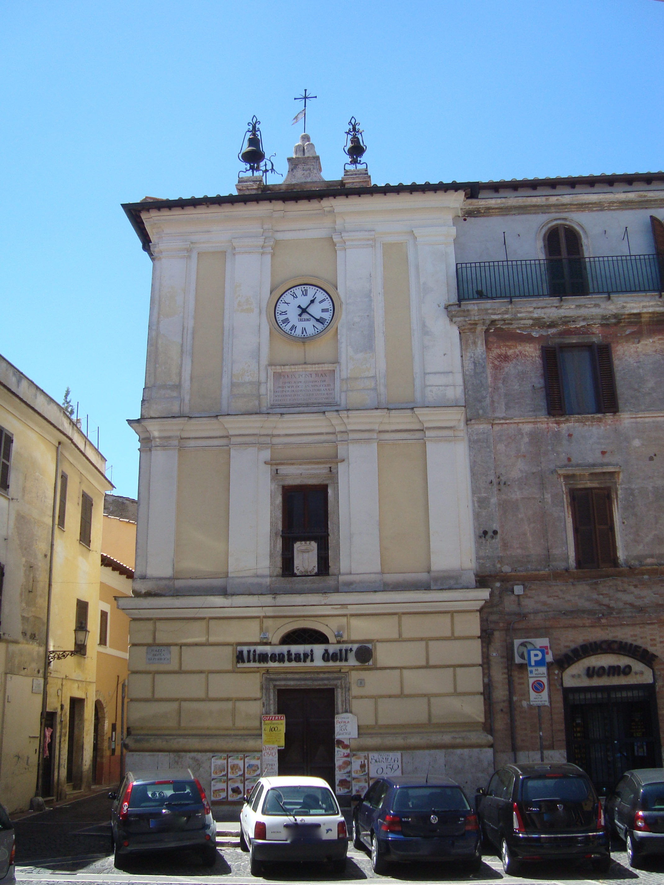 The torre dell'orologio in Monterotondo